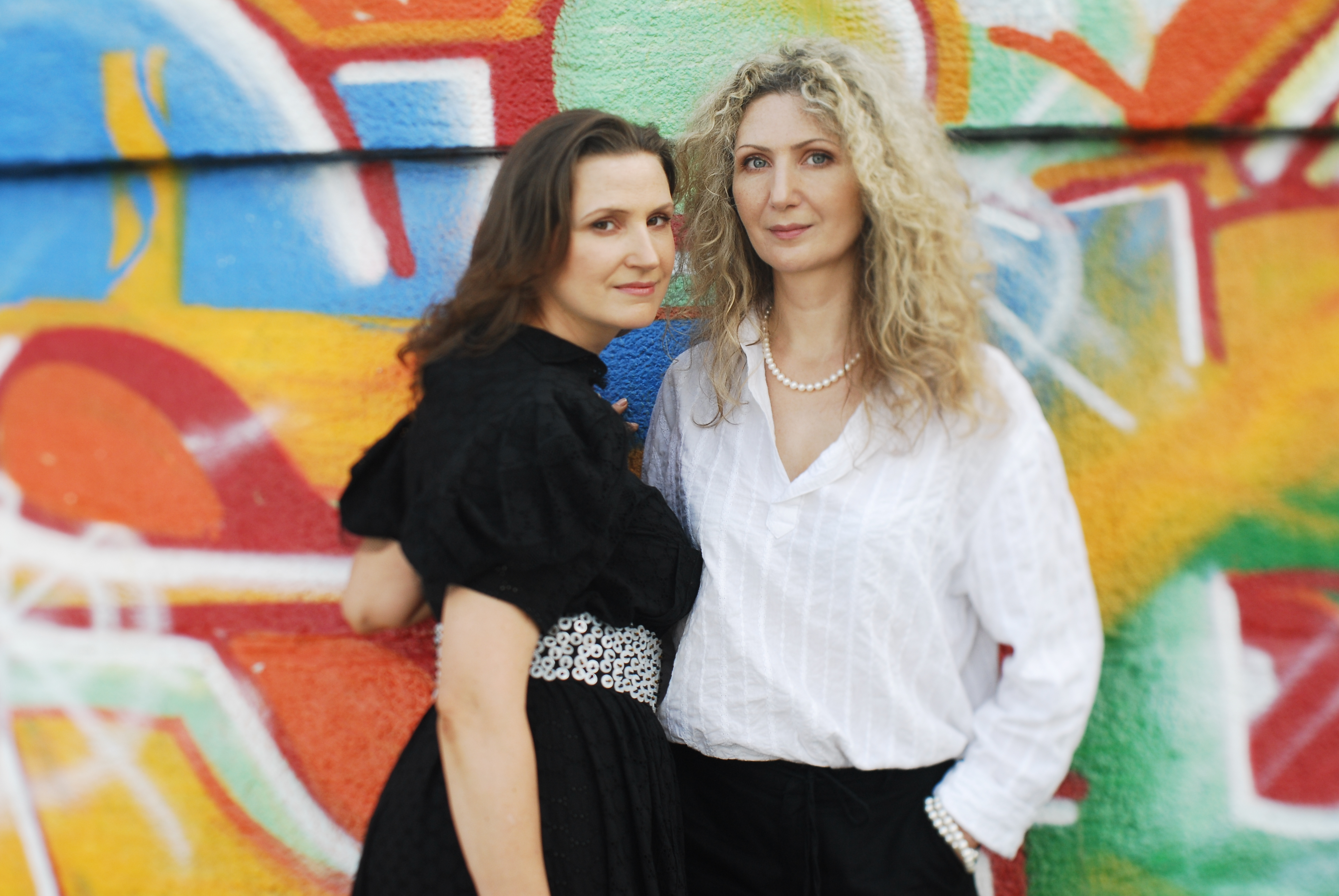 Lesya (right) and Halya (left) Telnyuk. "TELNYUK: Sisters" is Ukrainian art project, art-rock musicians.